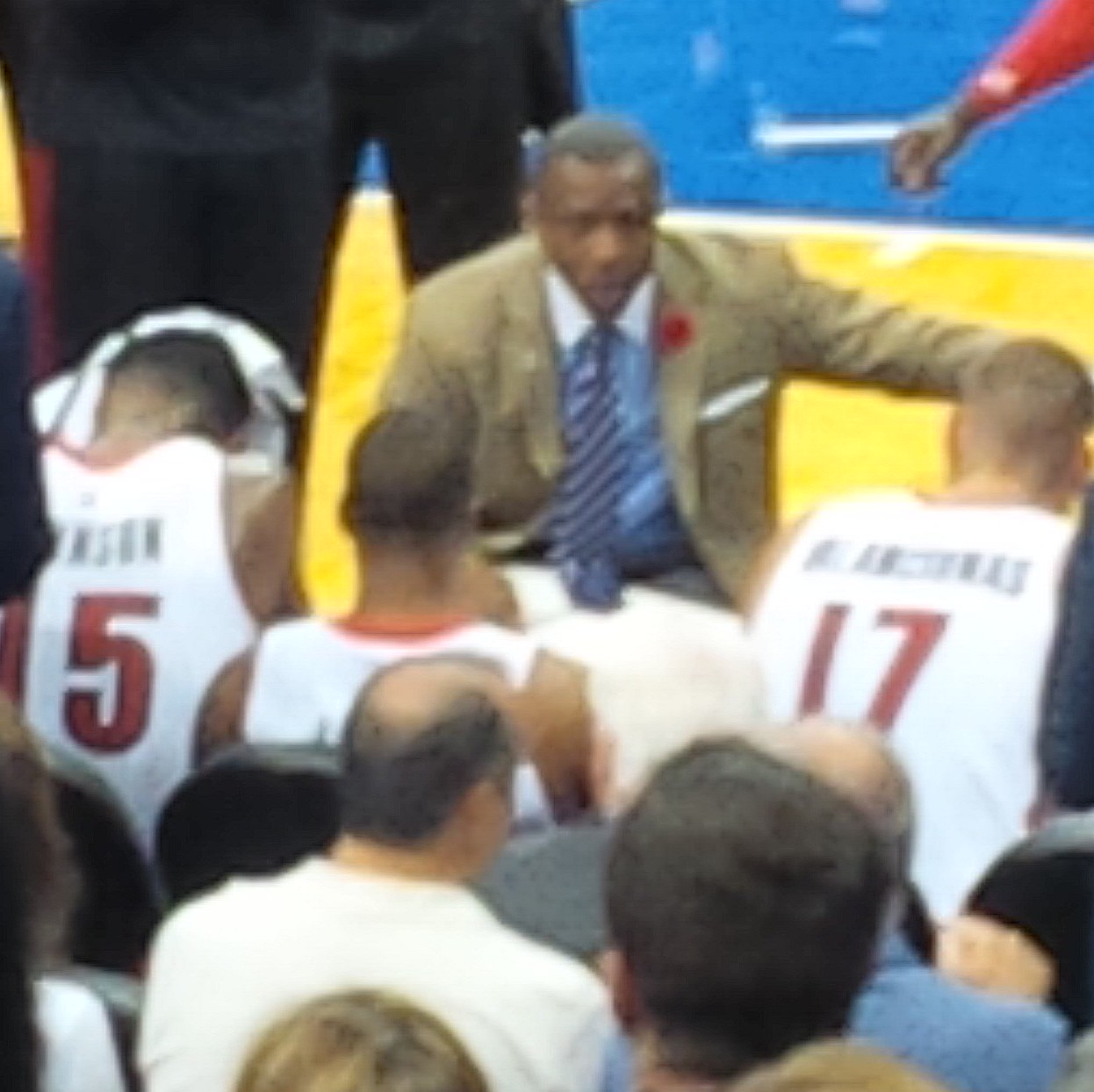 Dwane Casey coaching during a game at Amway Center, Orlando, FL. Raptors v. Magic on November 1, 2014.